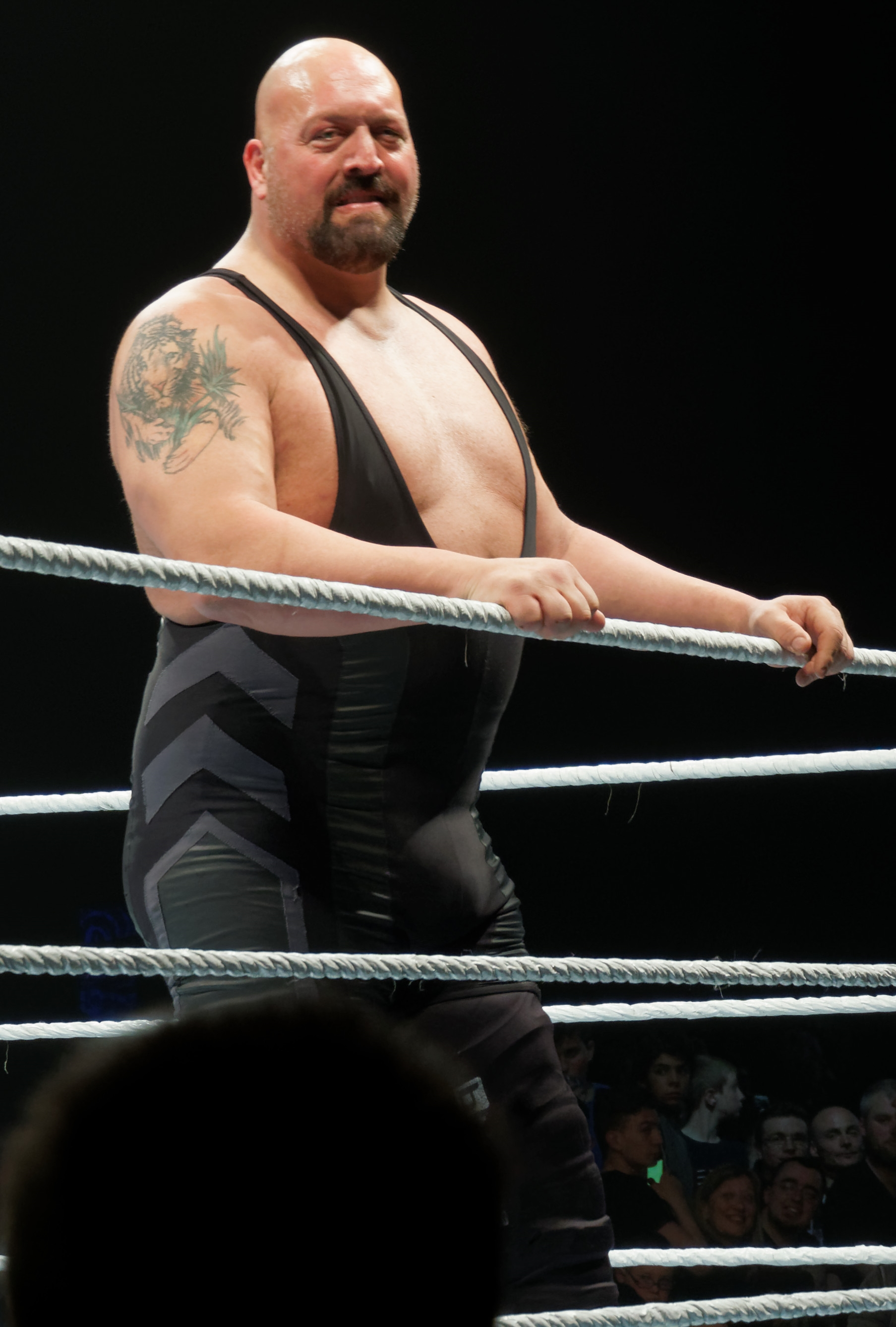 Big Show in April 2016